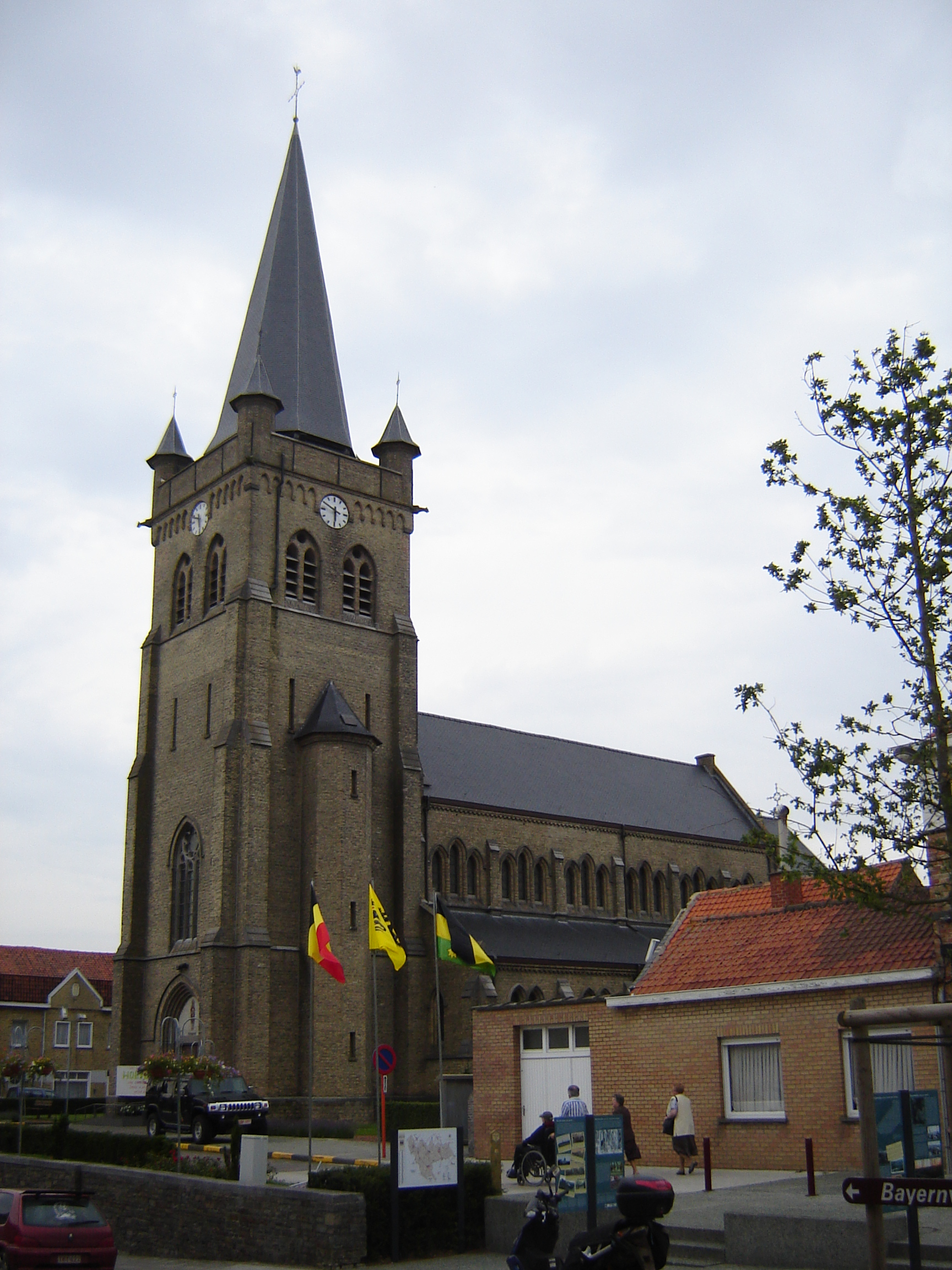 Church of Saint Medardus in Wijtschate, Heuvelland, West Flanders, Belgium.